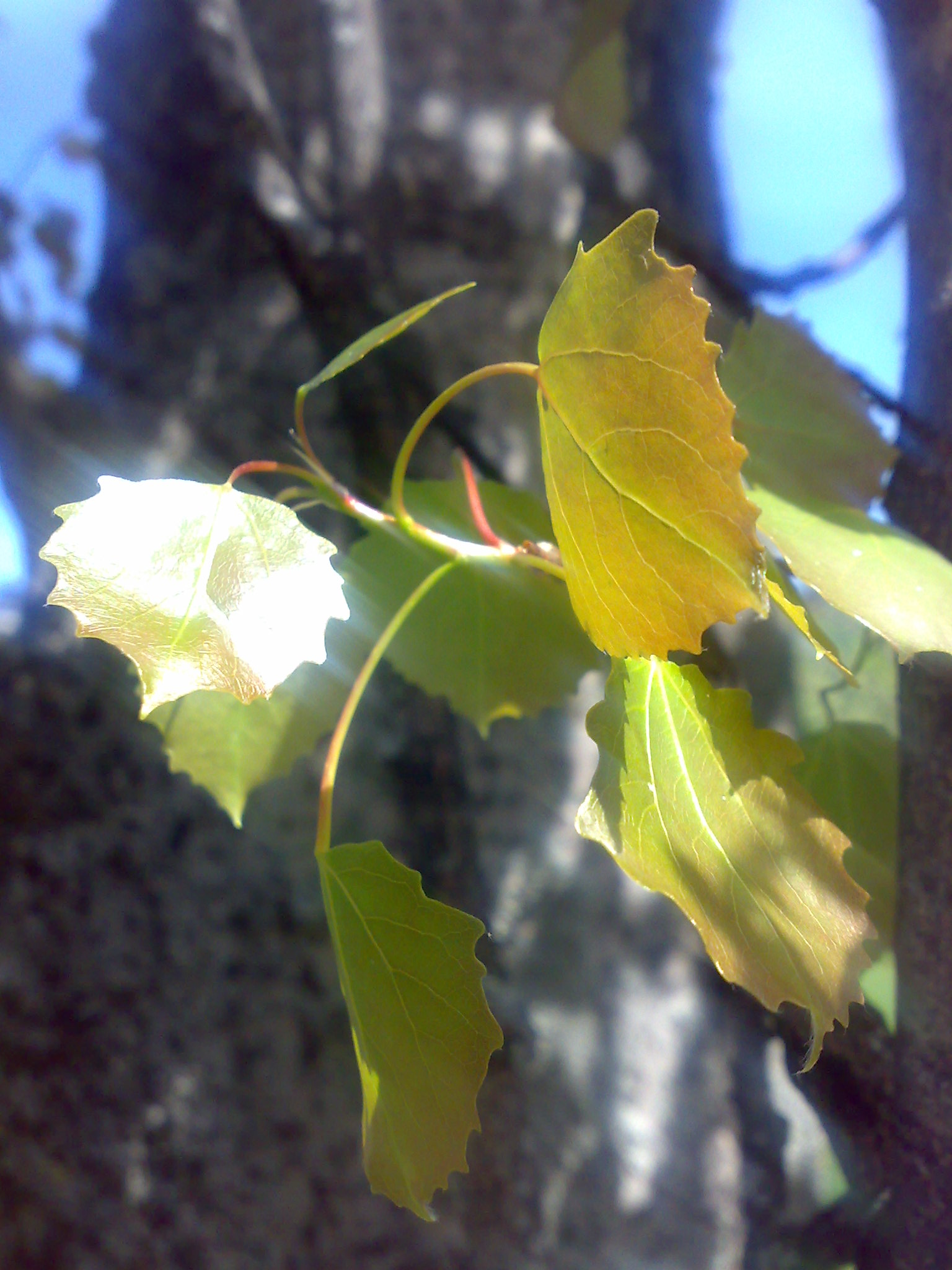 Unidentified Populus, probably P. tremula, Norway.